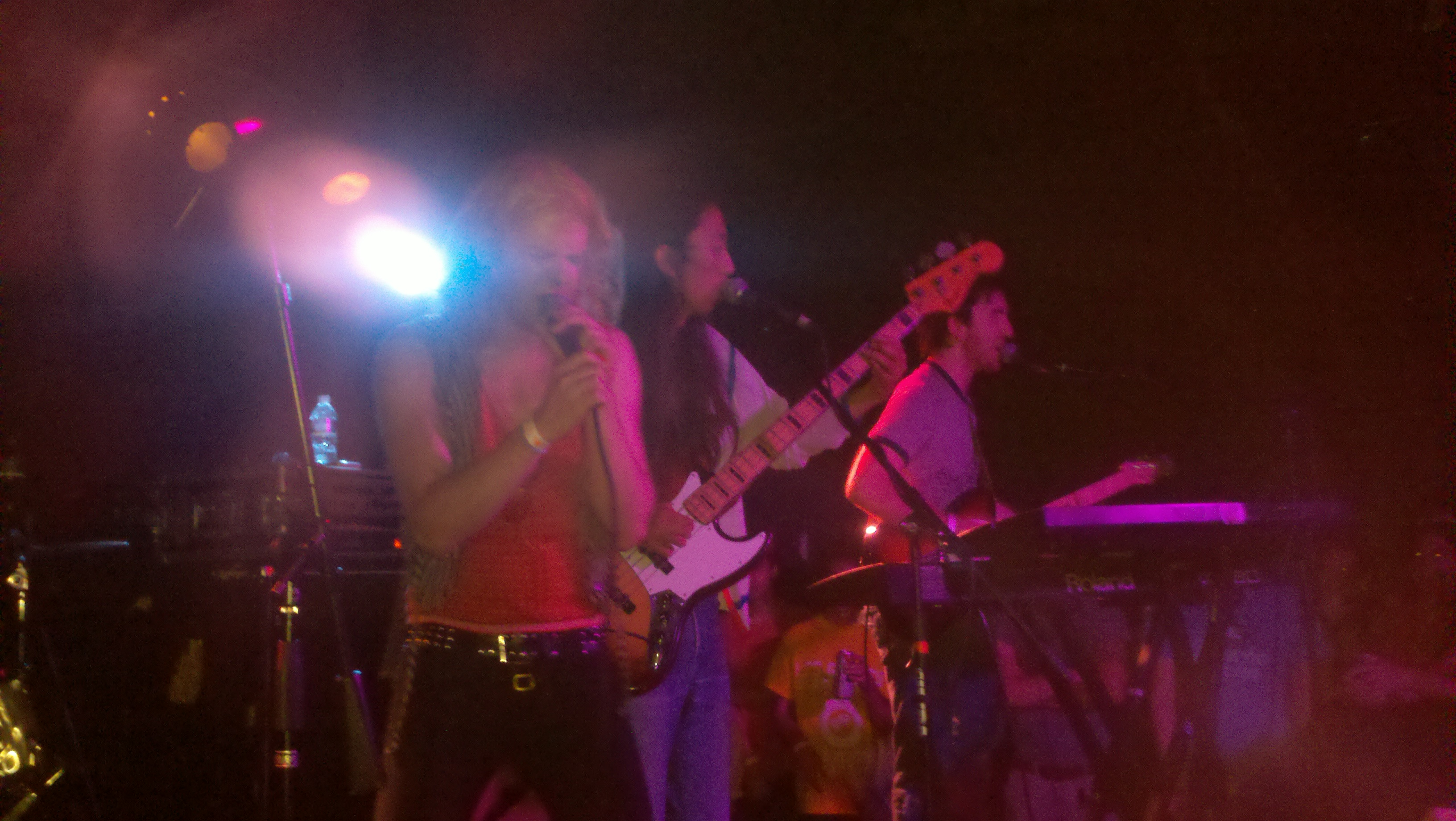 Ariel Pink's Haunted Graffiti performing live at the Rock and Roll Hotel in Washington, DC